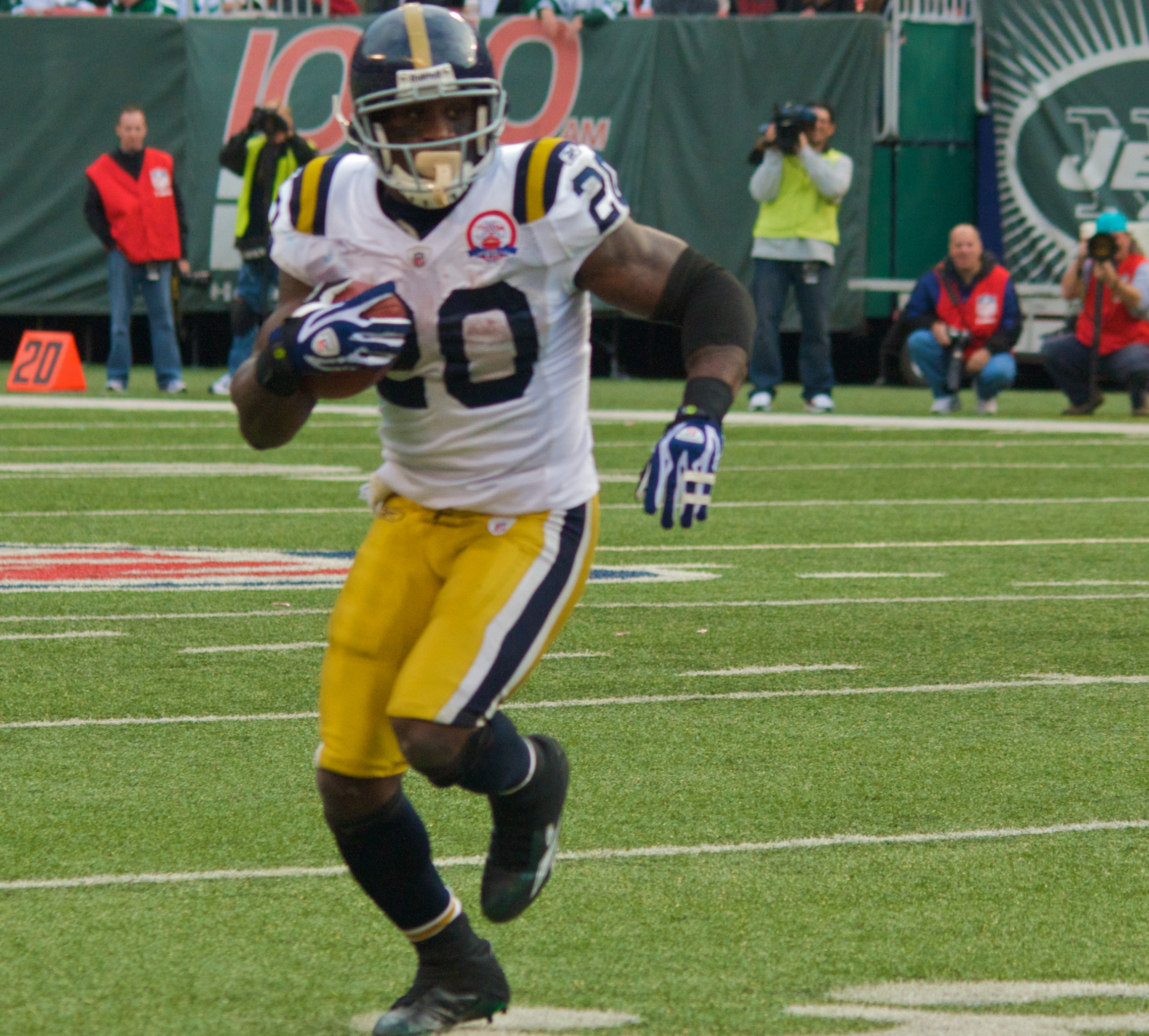 Running back Thomas Jones of the New York Jets